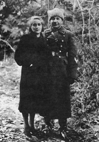 Hovhannes Bagramyan with his wife Tamara Hamayakovna (1900-1973).